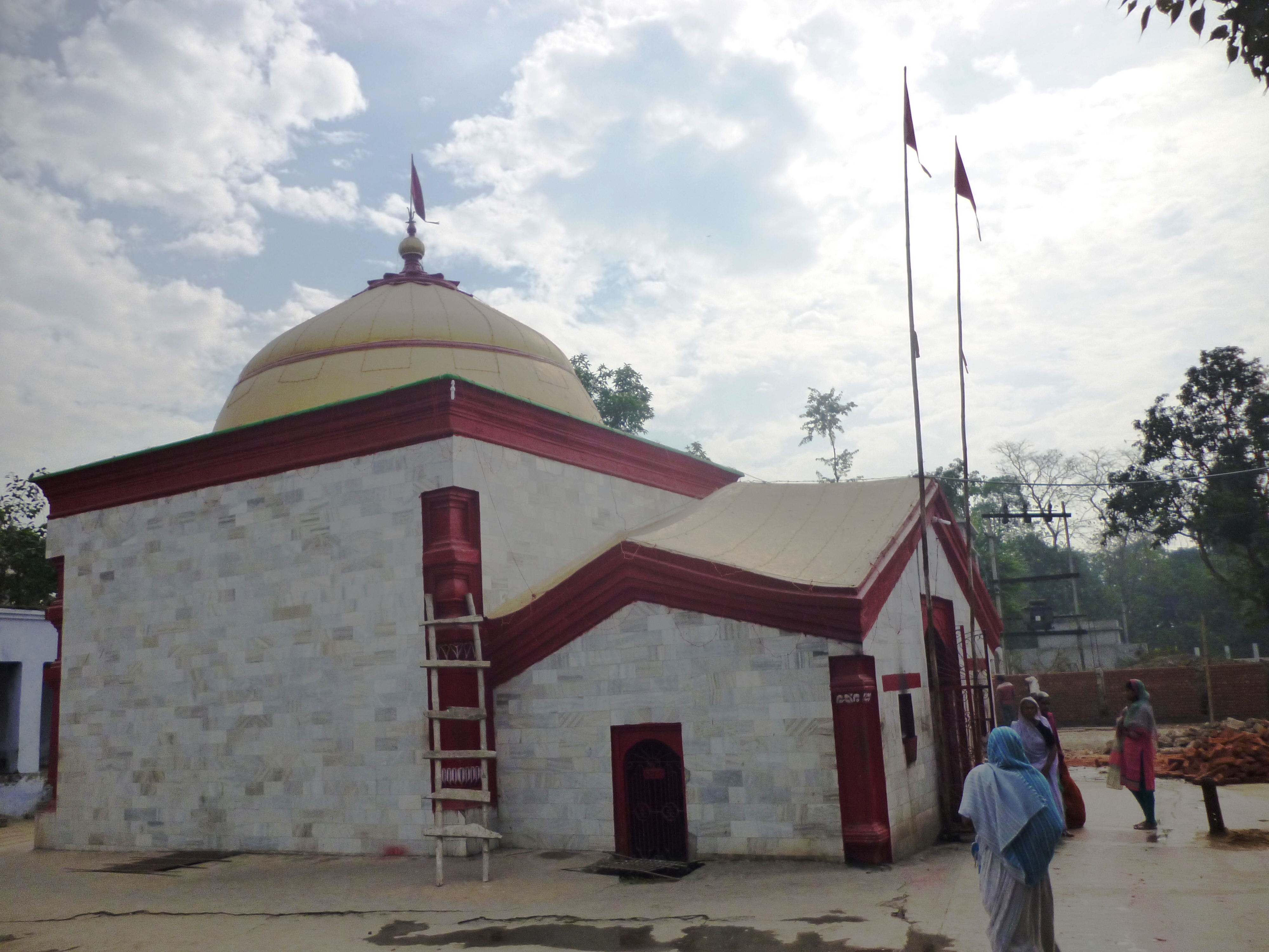 Ugratara Shakti Peeth (Temple) in Mahishi, Near Saharsa Town